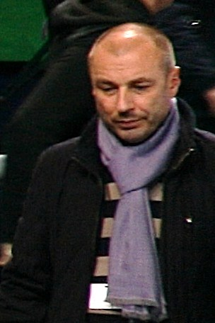 Alexander Zhulin at the 2010 Trophée Eric Bompard